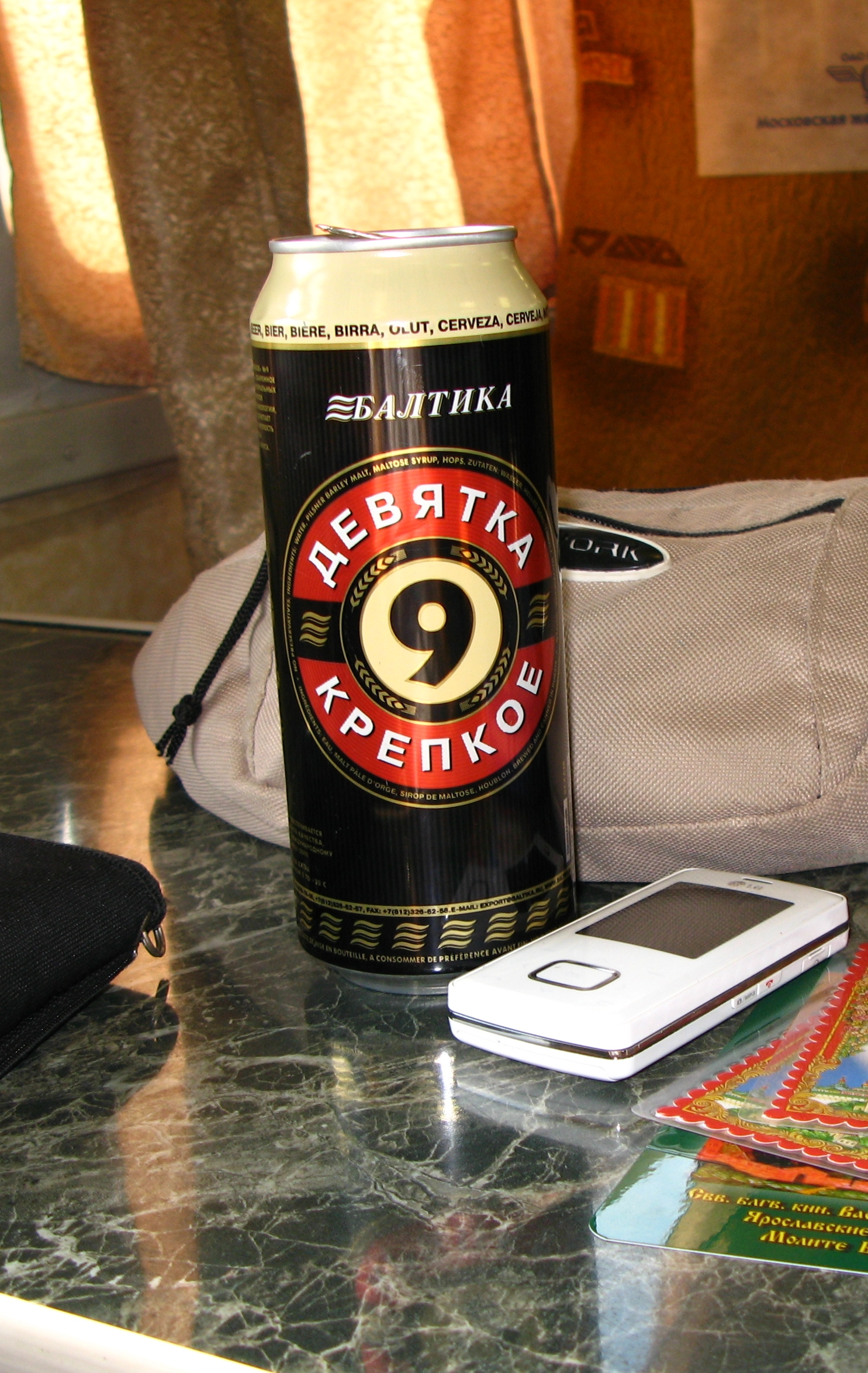 Russian strong bear "Baltika 9 - Krepkoe".